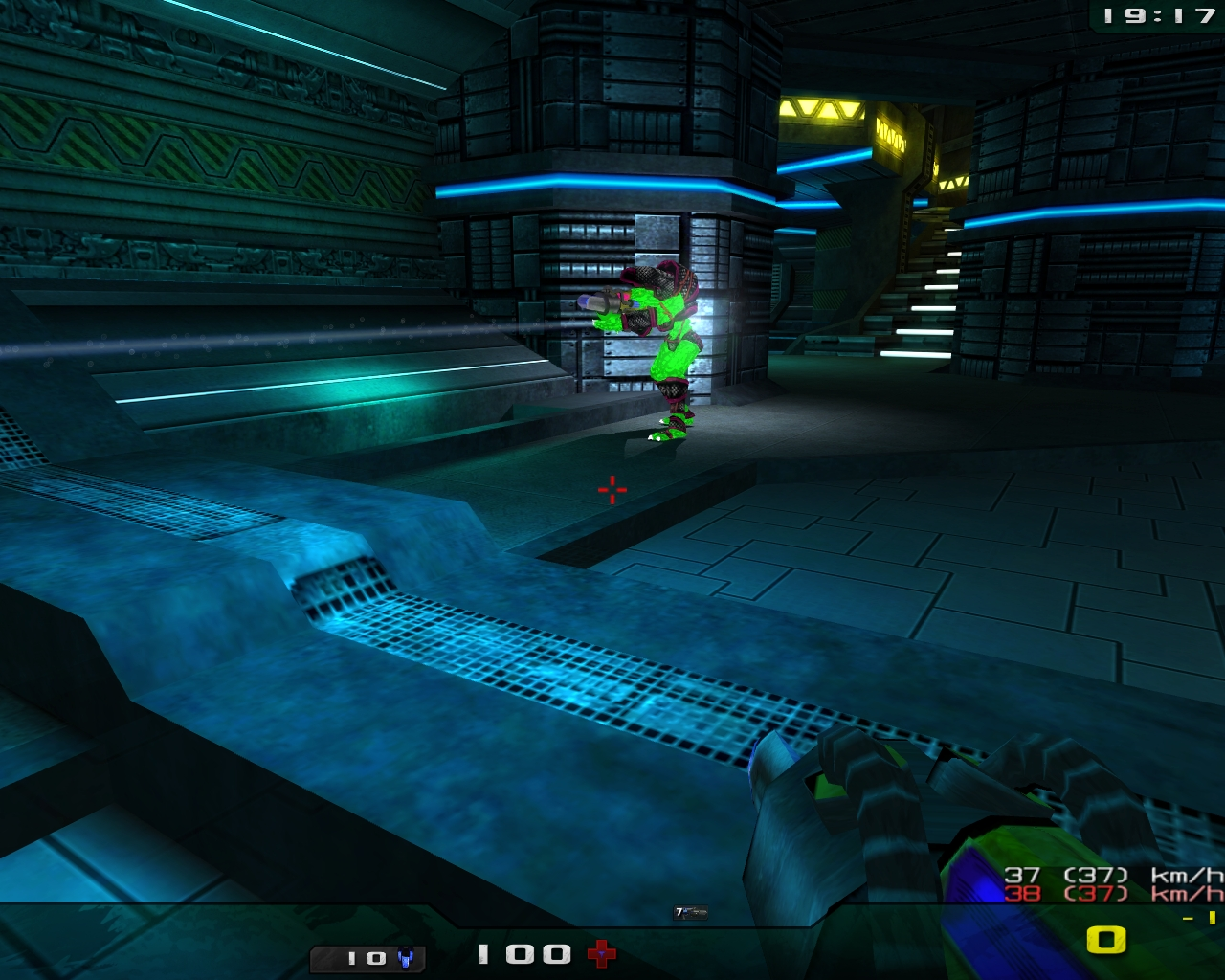 Nexuiz Screenshot